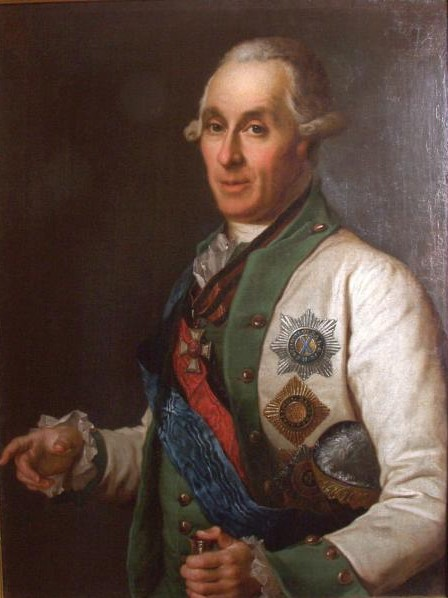 Greyg Samuil Karlovich